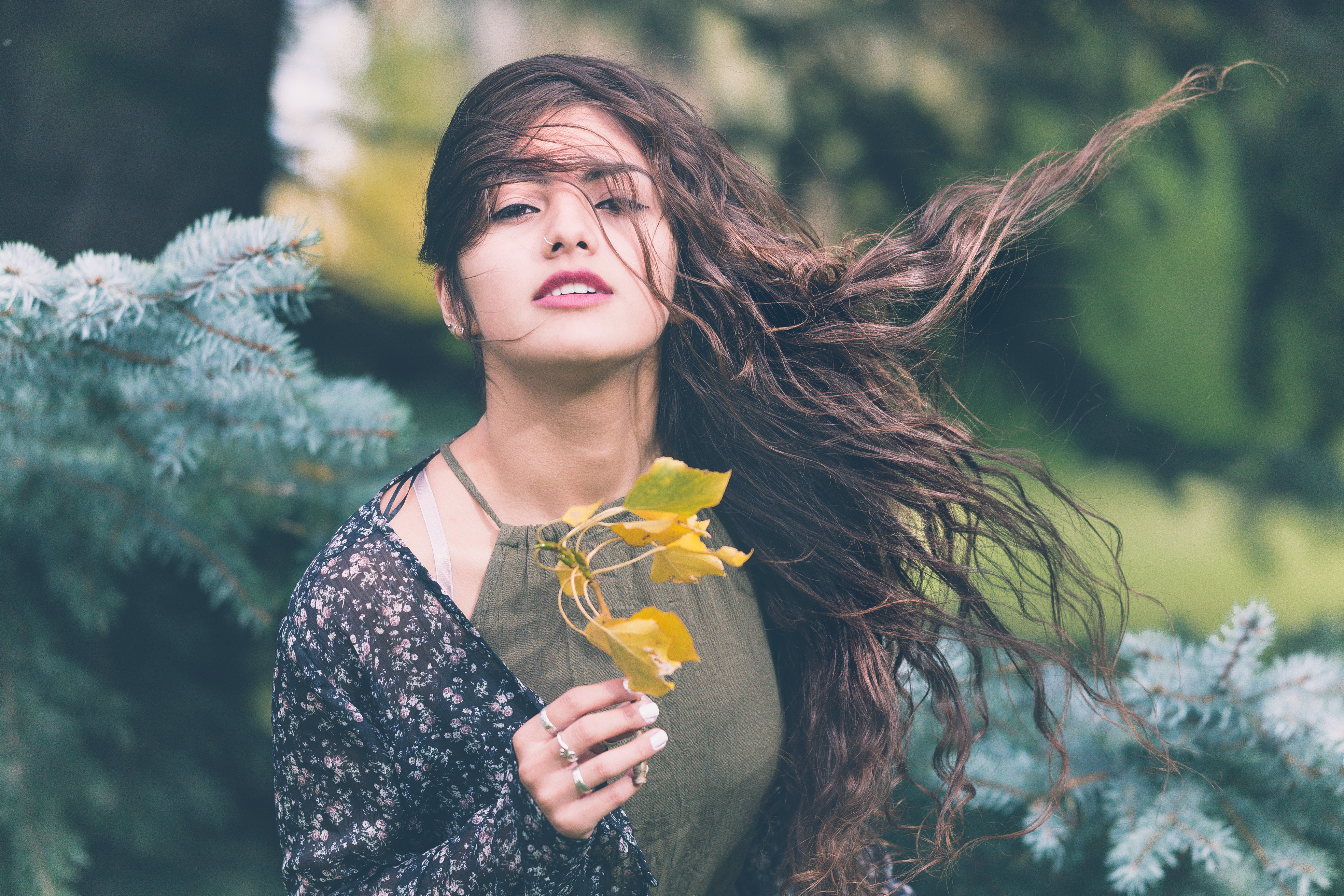 Three Hills, Canada